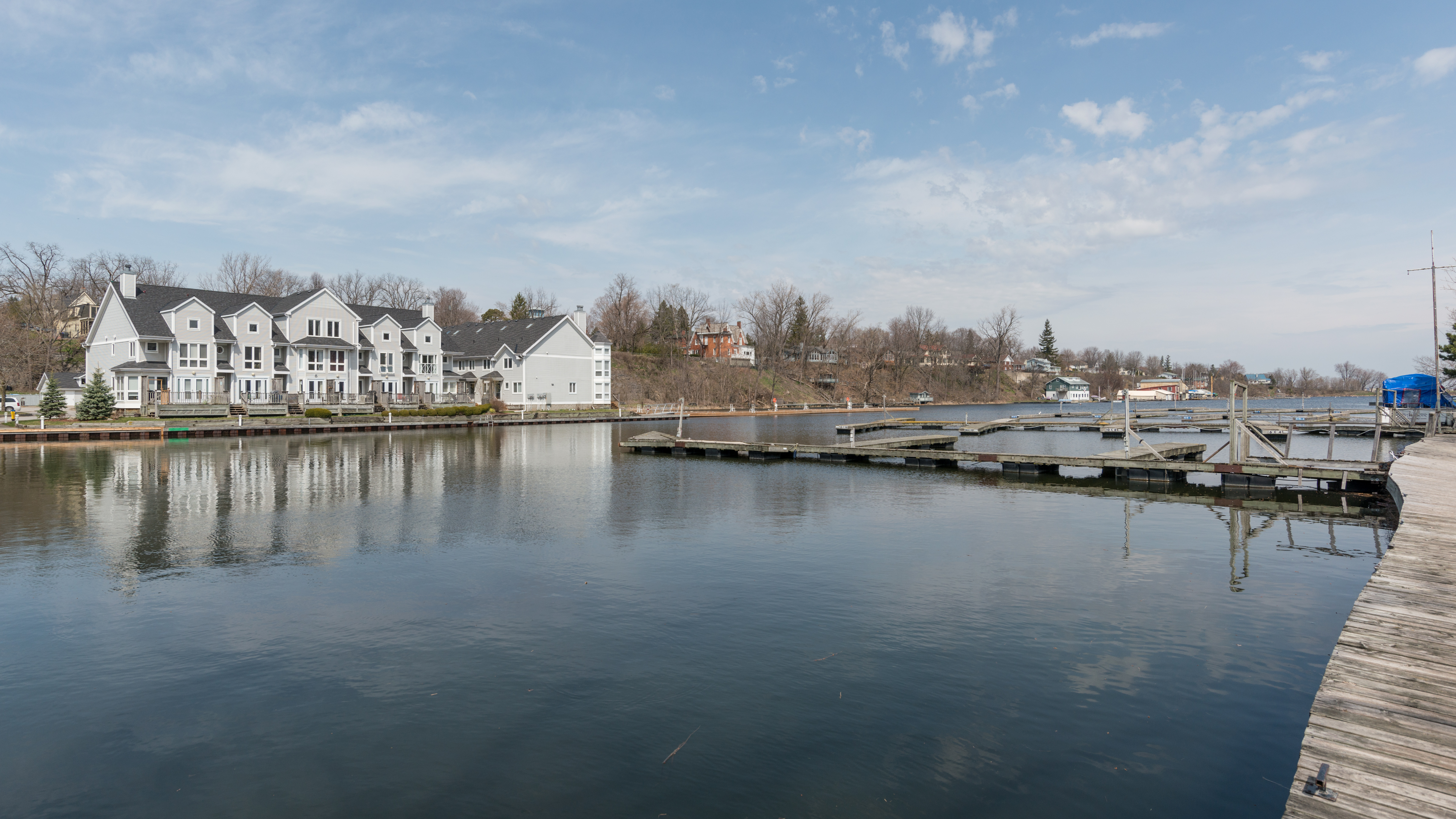 A south view of Picton Harbour, Prince Edward County, Ontario